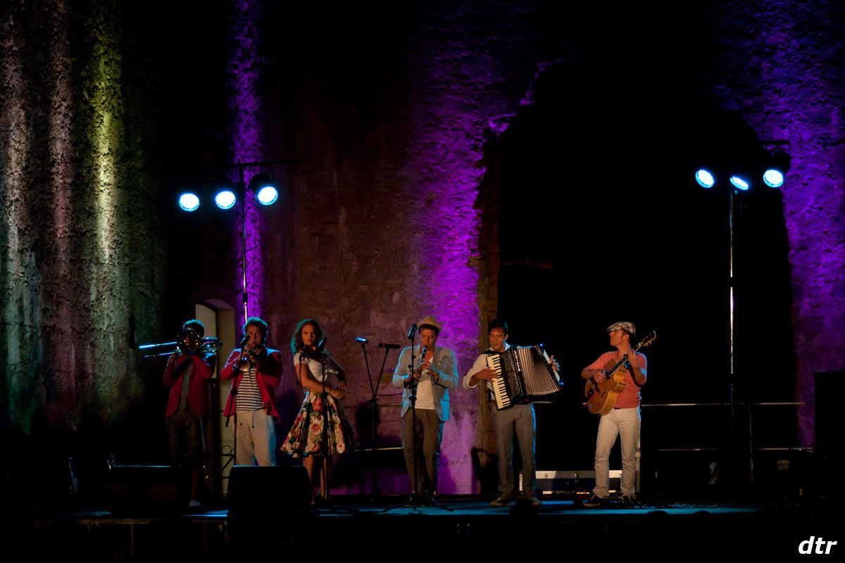 Eurovision spectacle, the music band Global Kryner